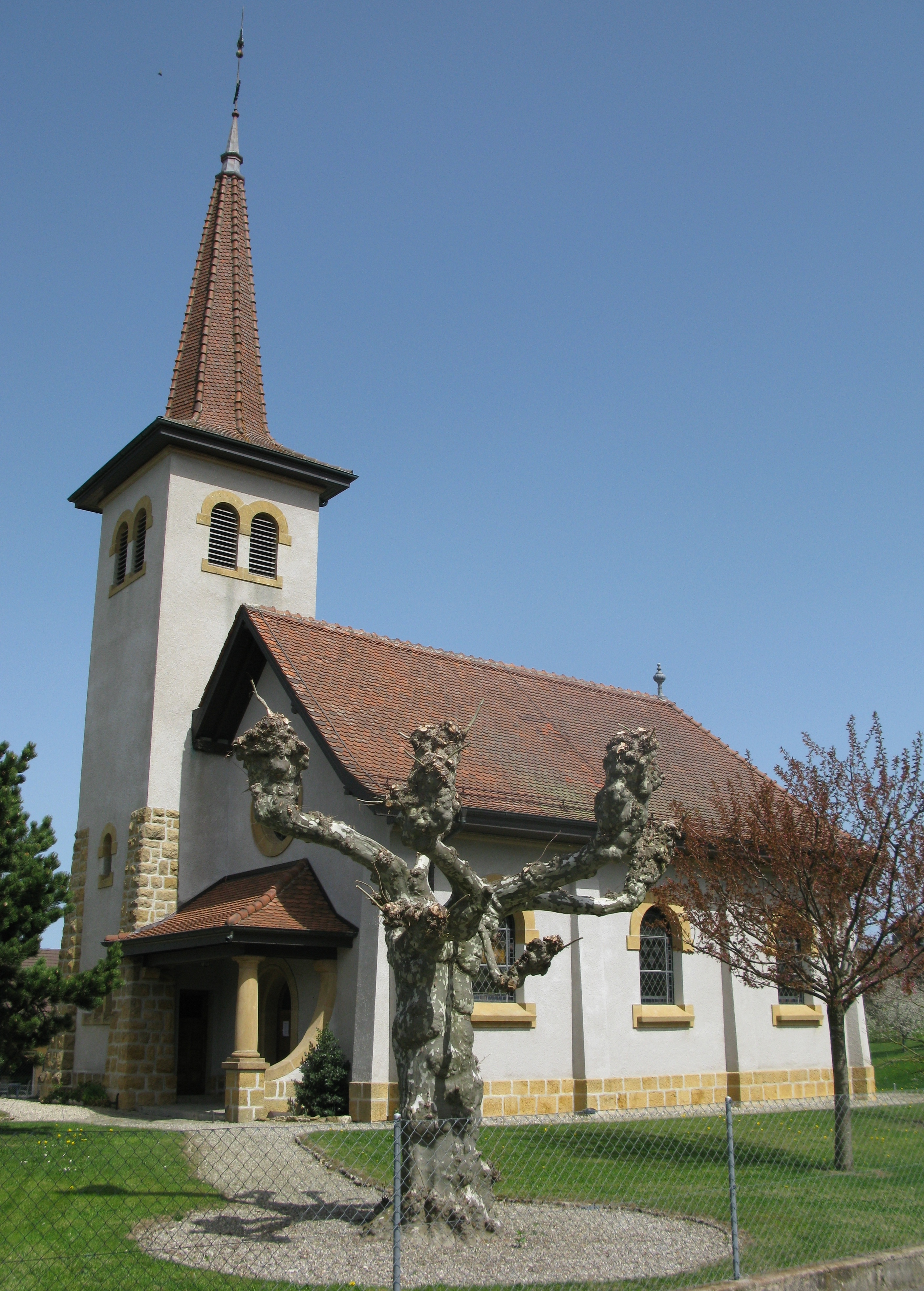 The reformed church of Poliez-Pittet